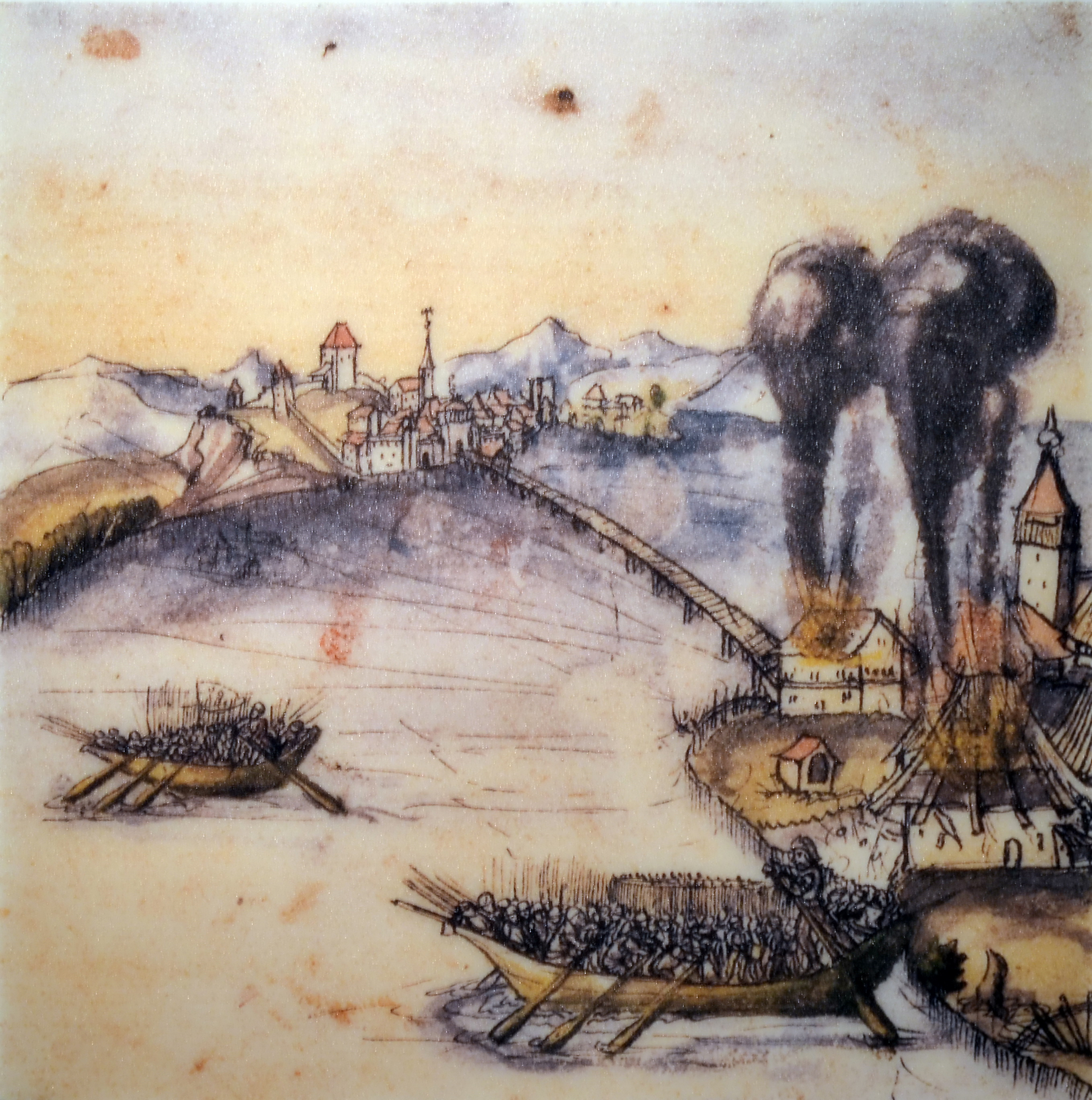 Collection of the Stadtmuseum) in Rapperswil (Switzerland)